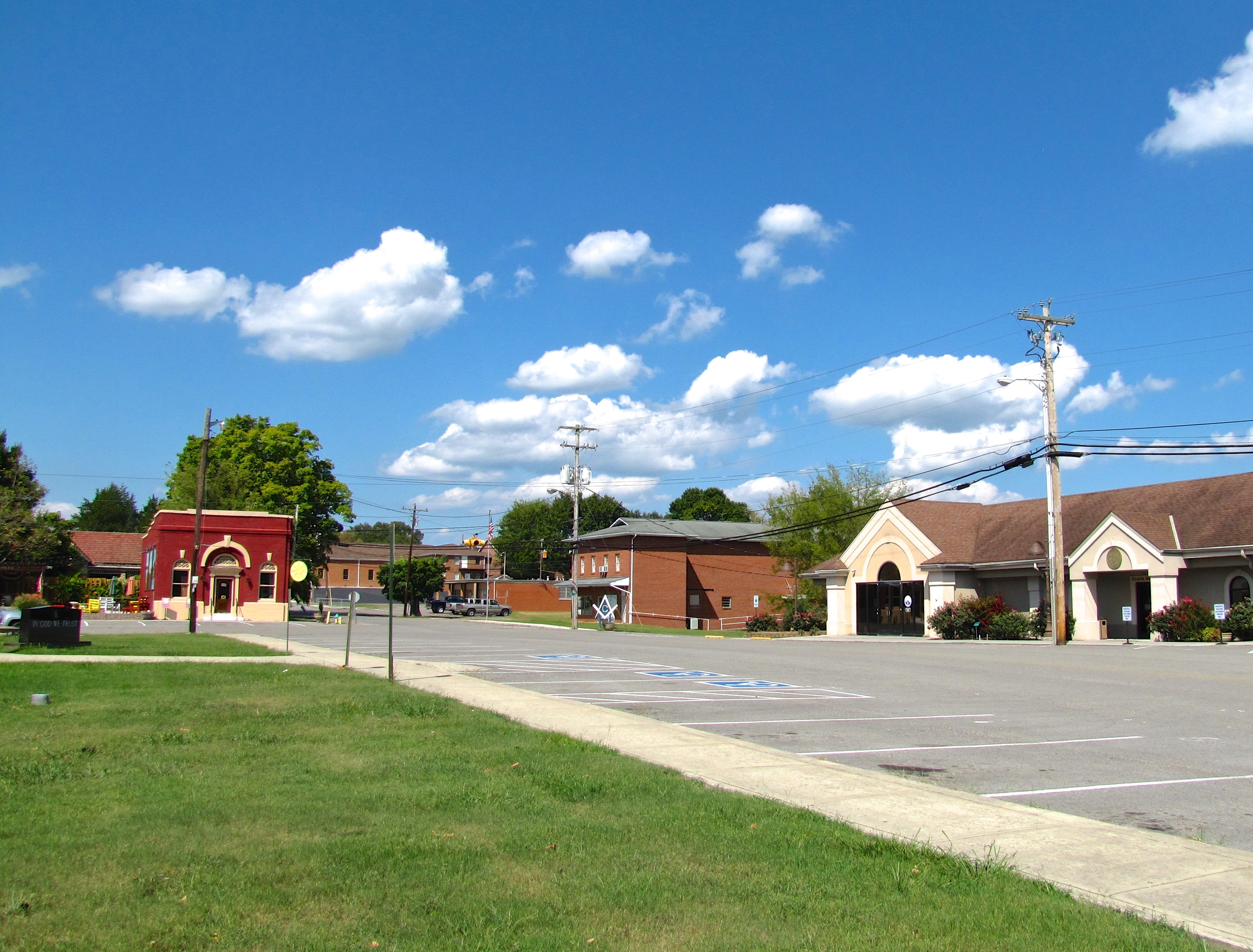 Buildings along Main Street in Decatur, Tennessee, United States.